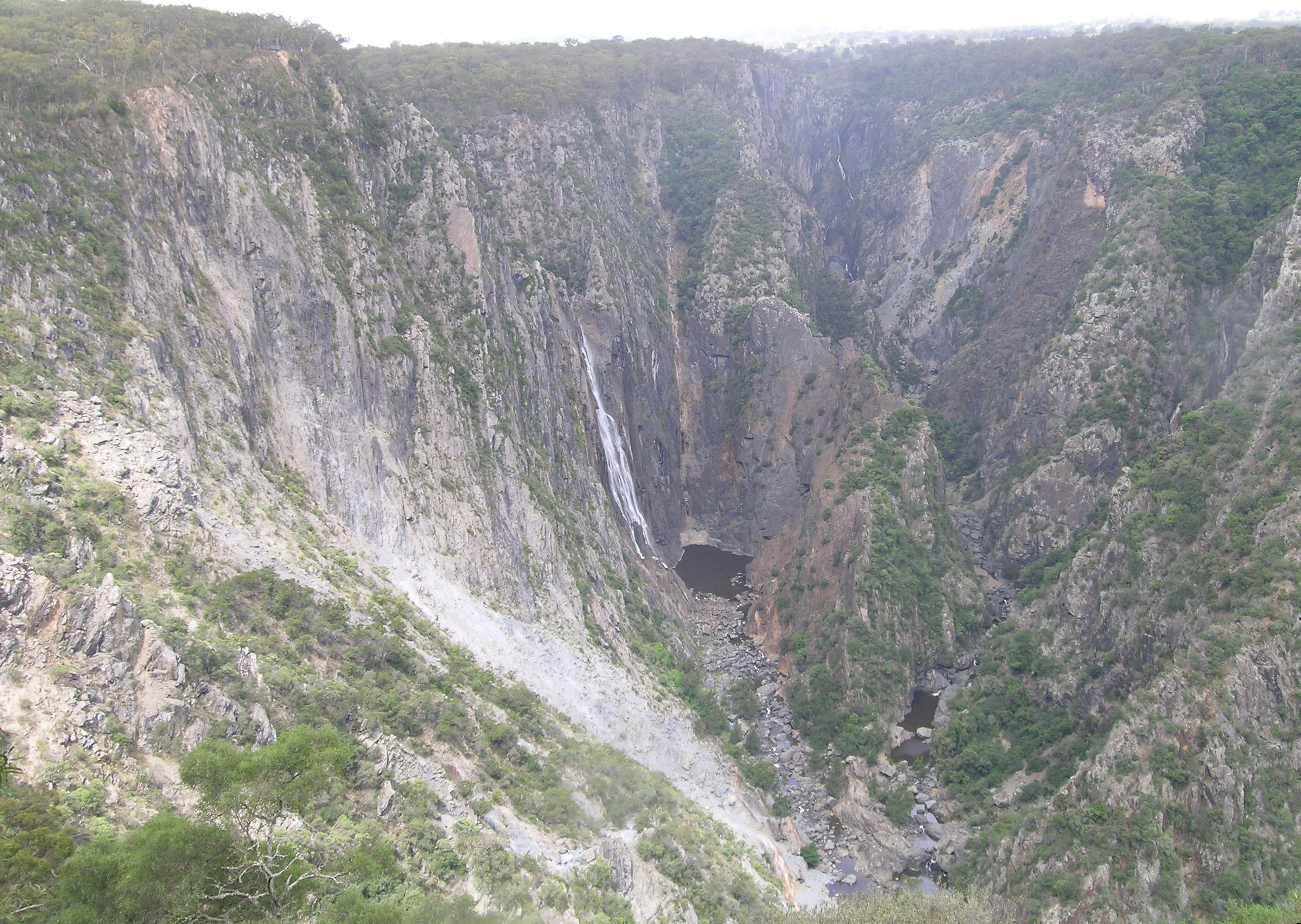 The Wollomombi Falls and Wollomombi River are on the left and are shown with the river's confluence with the Chandler River below the centre of the photo.